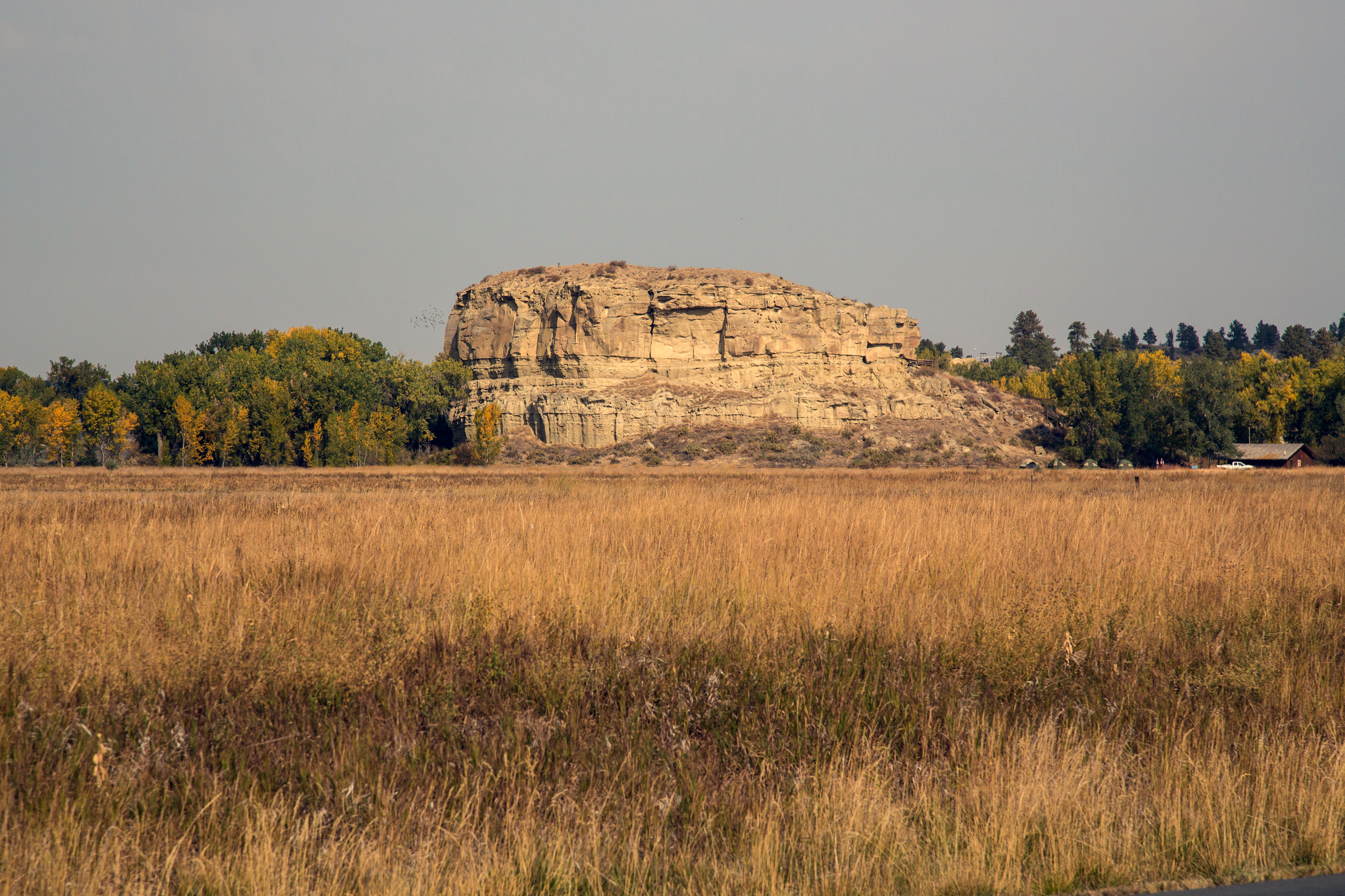 During his return trip to St. Louis, William Clark of the Lewis and Clark Expedition climbed the Pillar and carved his signature and the date in the sandstone. Clark wrote, “This rock I ascended and from it’s top had a most extensive view in every direction on the Northerly Side of the river high romantic Clifts approach & jut over the water for Some distance both above and below...I marked my name and the day of the month and year." This historic carving on the sandstone butte that Clark called a “remarkable rock” has inspired generations of visitors for more than 100 years. Pompeys Pillar in Montana was proclaimed a national monument in January 2001. Prior to its monument status, it was a designated national historic landmark in 1965. It is located along the Lewis and Clark National Historic Trail. Learn more: Photo: Bob Wick, BLM